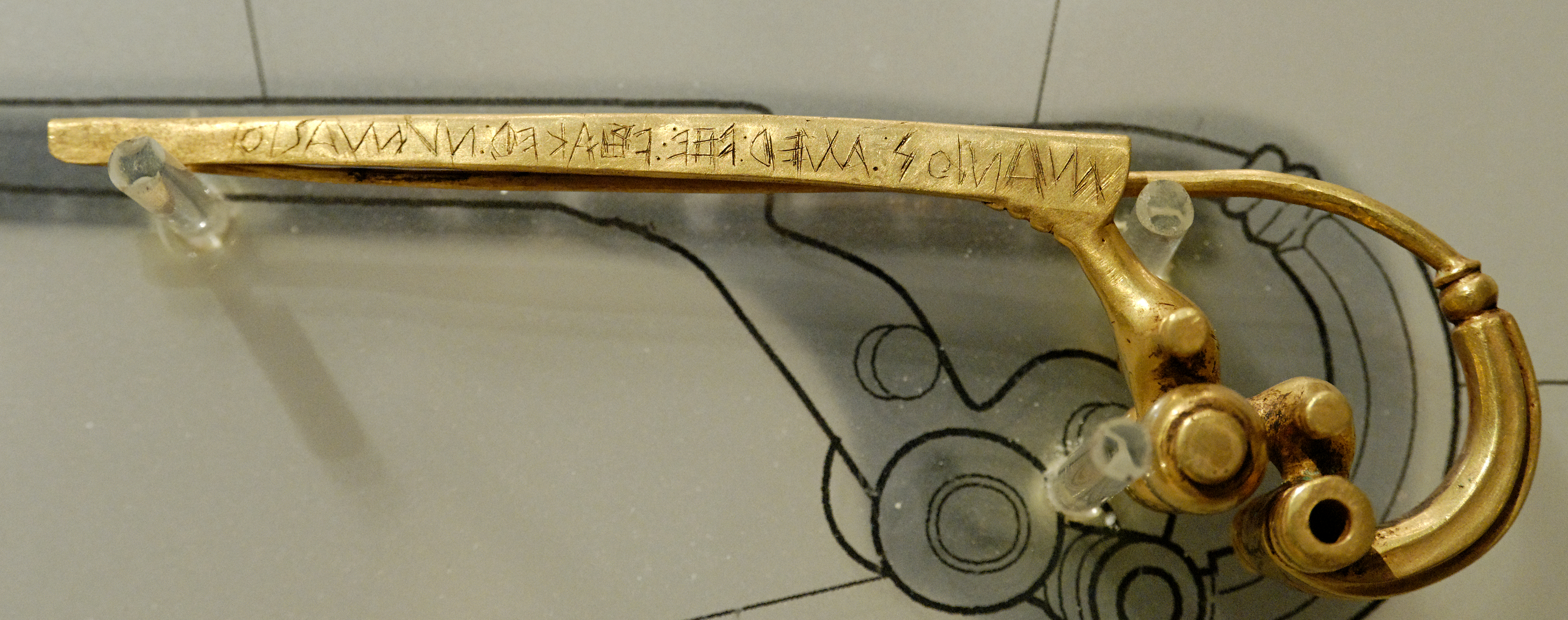 Fibula Praenestina: dragon fibula with an engraved retrograde inscription stating the object to have been made (or rather commissioned) by Manios for Numerios. Disputed authenticity.